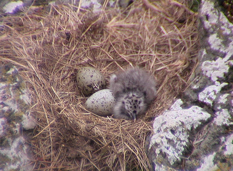 Black-backed Gull (Larus dominicanus) near Palmerston, New Zealand. Photographed on 28 November 2002.